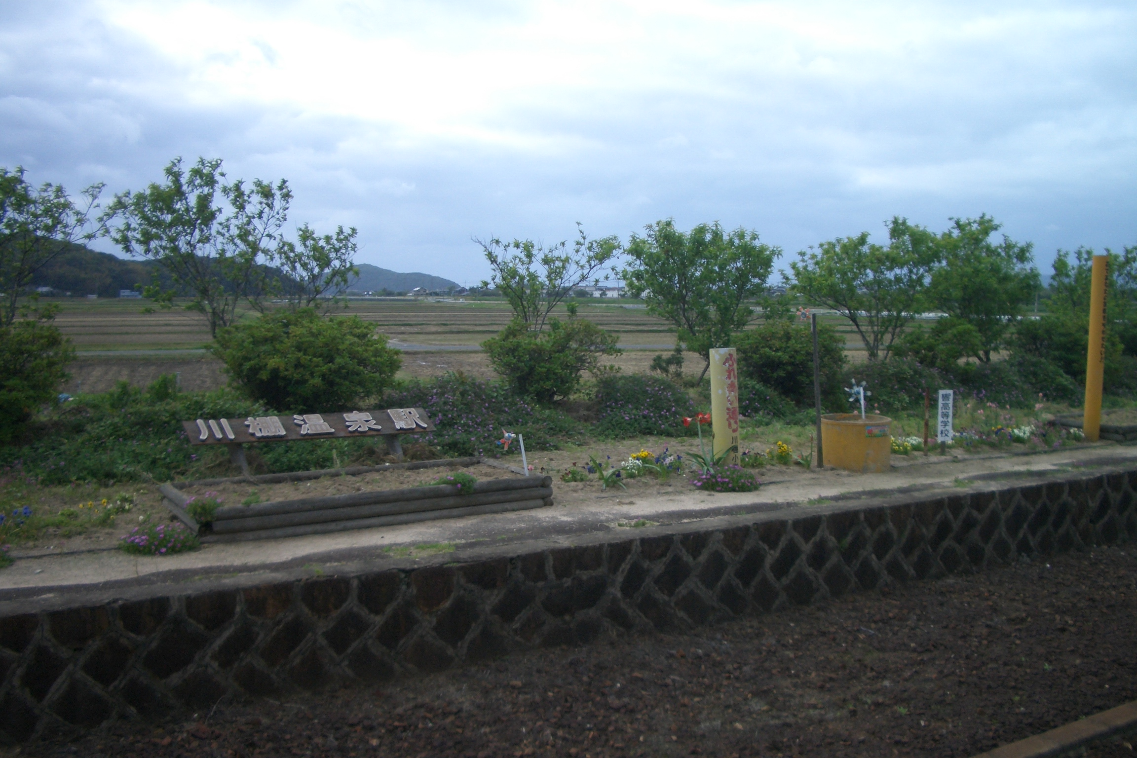 Old Platform of Kawatana Onsen Station, JR-West, Yamaguchi, Japan